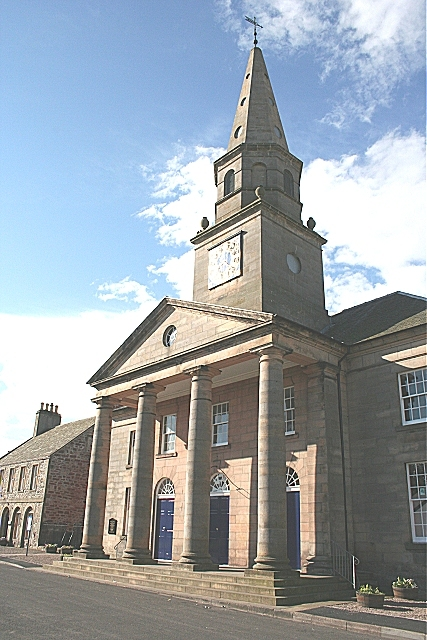 Bellie Kirk. The classical columns of the portico on the north facade of Bellie Parish Kirk are only in the sunshine early on summer mornings.